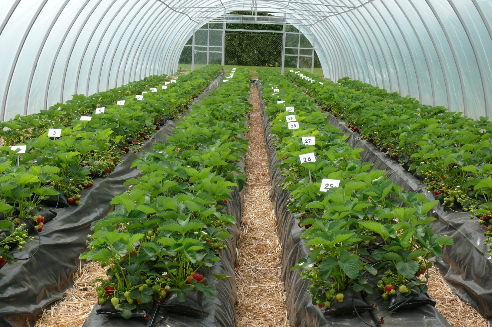 Hill system of controlled strawberry cultivation at Exp. Station Marcelin